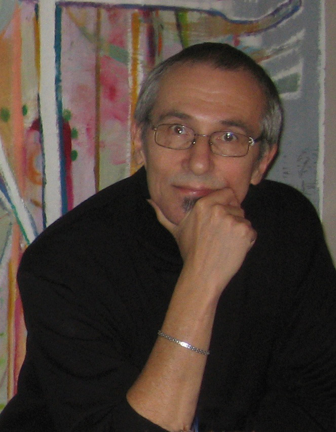 portrait of comic artist Evert Geradts